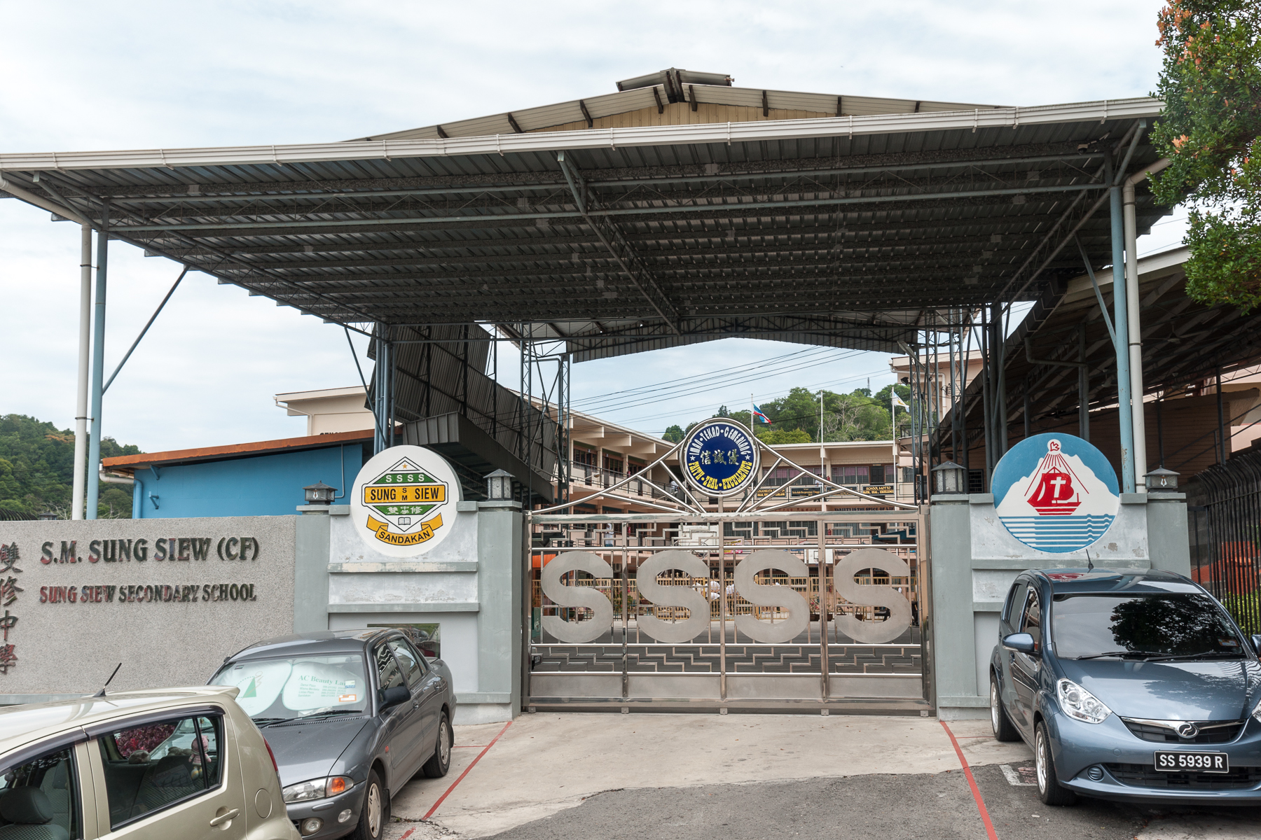 Sandakan, Sabah: SSung Siew Secondary School (SM Sung Siew Sandakan)